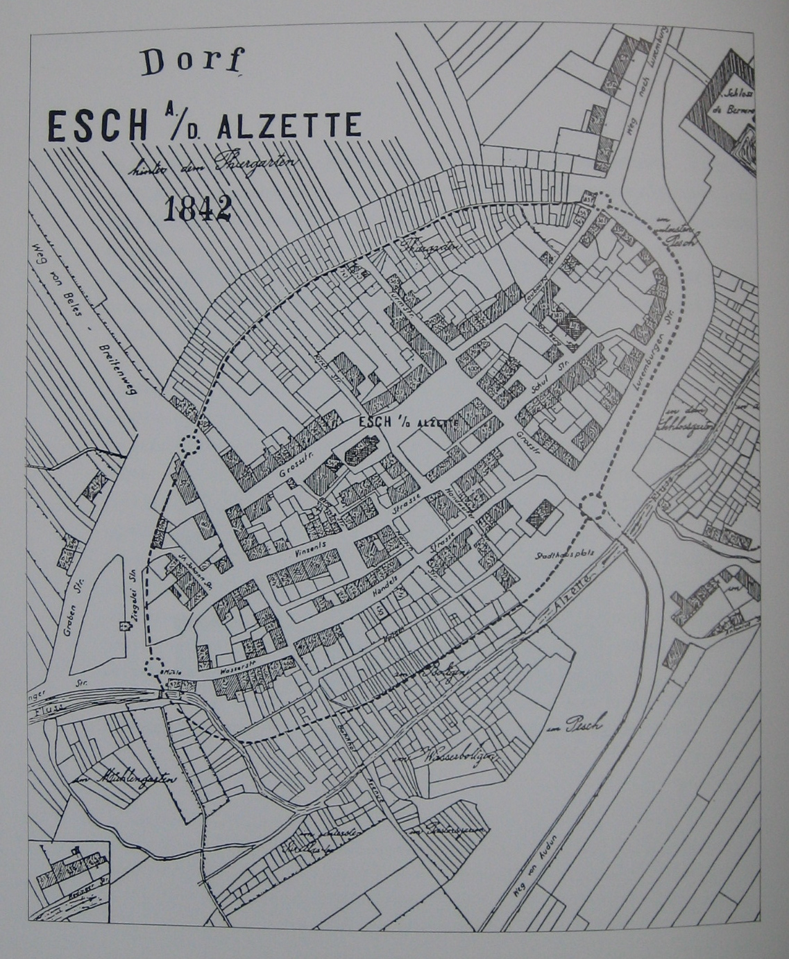 Map of the town of Esch-sur-Alzette (according to the Plan cadastral of 1842). The dotted lines indicate the position of the former city wall and towers.